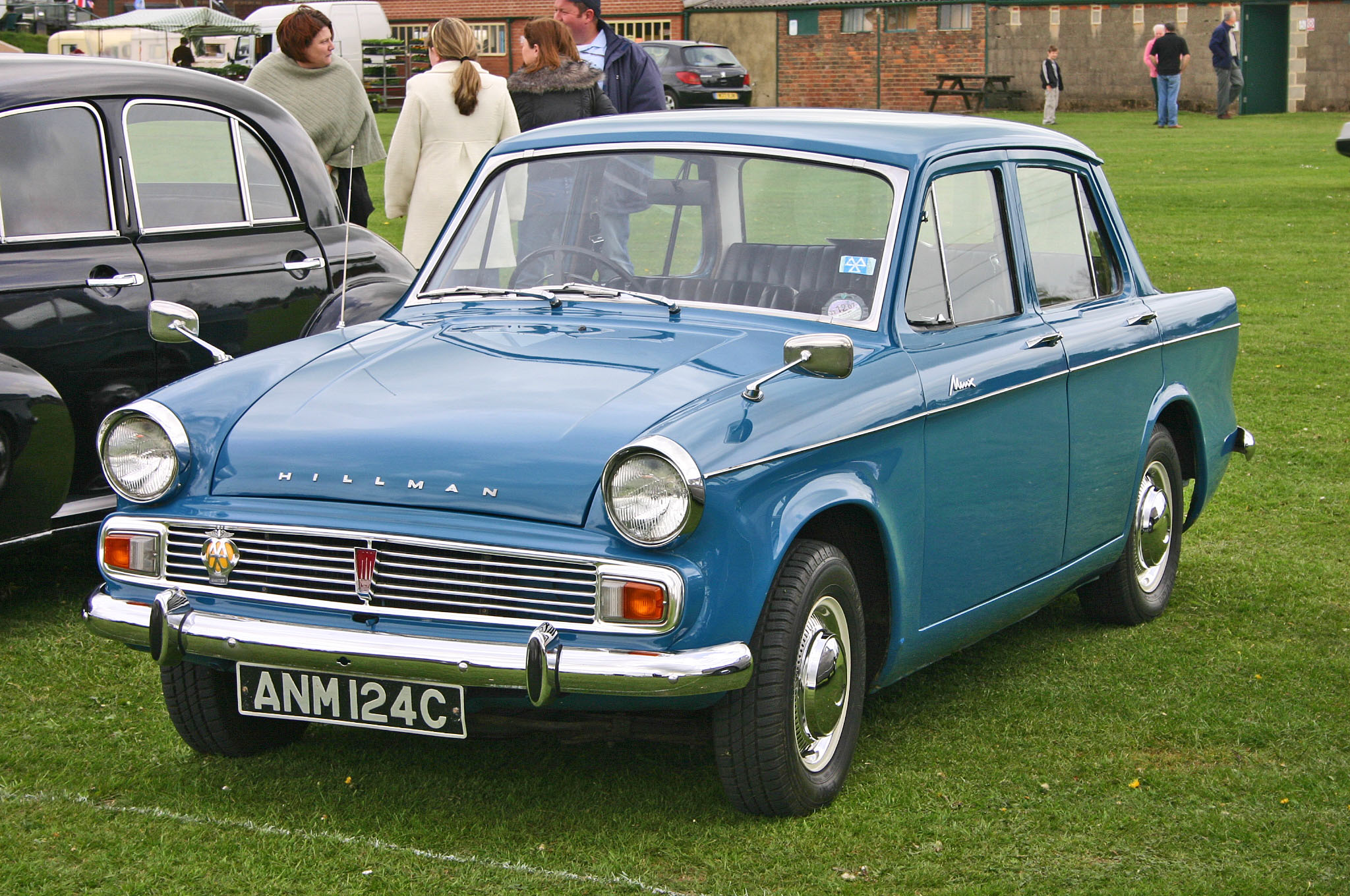 The final version of the 'Audax' Hillman Minx before the 'Arrow' versions were introduced. The Hillman Minx Series V superseded the Minx Series IIIC; there never was a Minx Series IV.